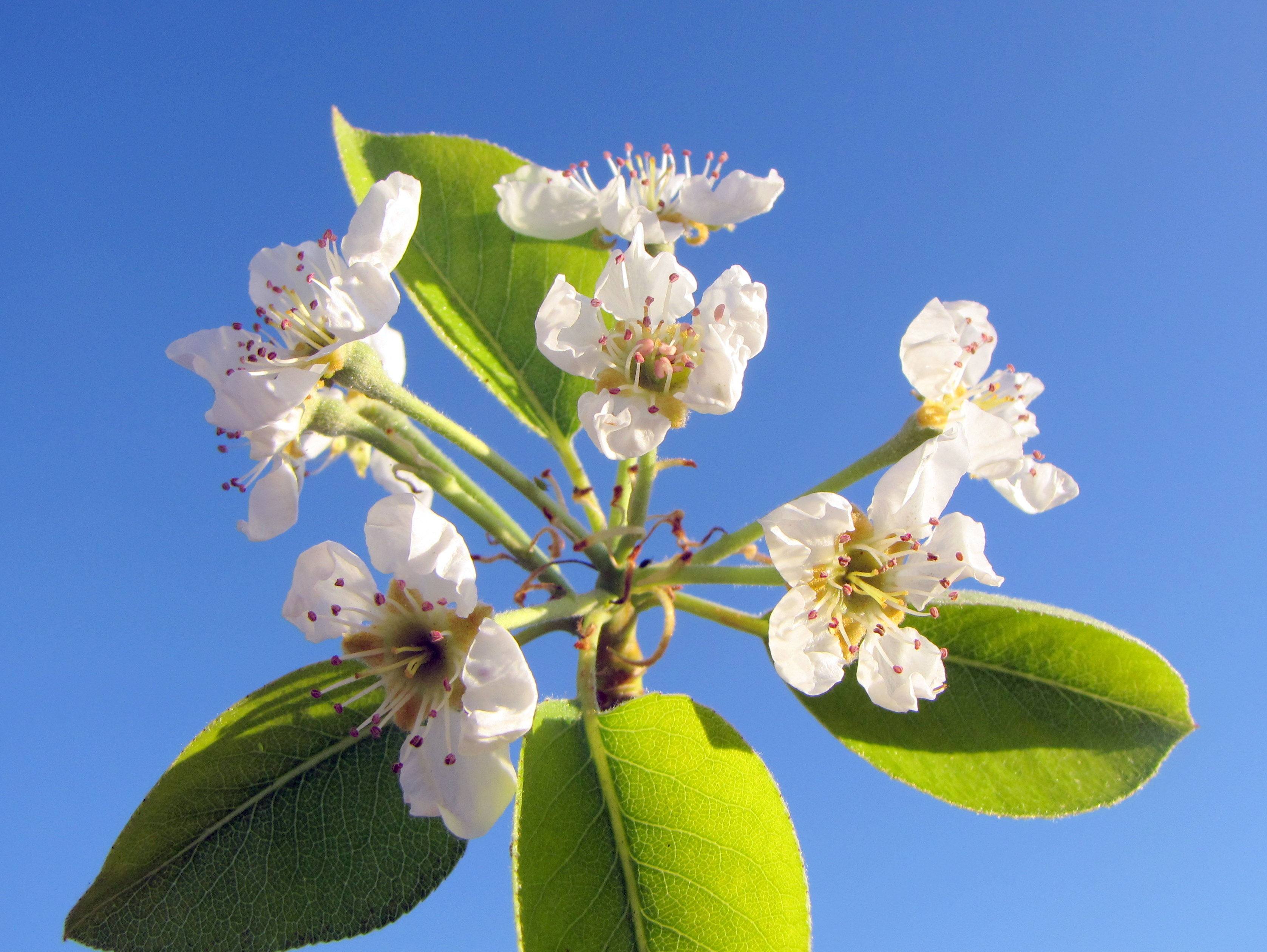 This image shows good detail of flowers and leaves.